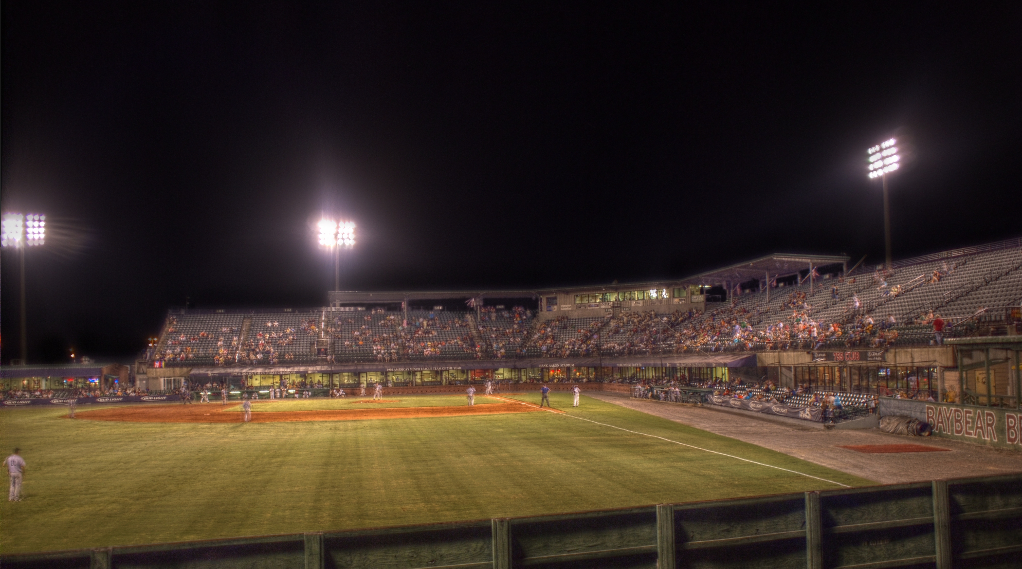 Saturday August 22, 2009 Mobile Baybears vs. Jacksonville Suns Hank Aaron Stadium, Mobile, Alabama View from the outfield hill of the stadium. Olympus E-P1 17mm ZD f/2.8 ISO-200 5 exposures Qtpfsgui 1.9.3 tonemapping parameters: Operator: Mantiuk Parameters: Contrast Mapping factor: 0.1 Saturation Factor: 0.8 Detail Factor: 1 PreGamma: 0.5 View Large On Black